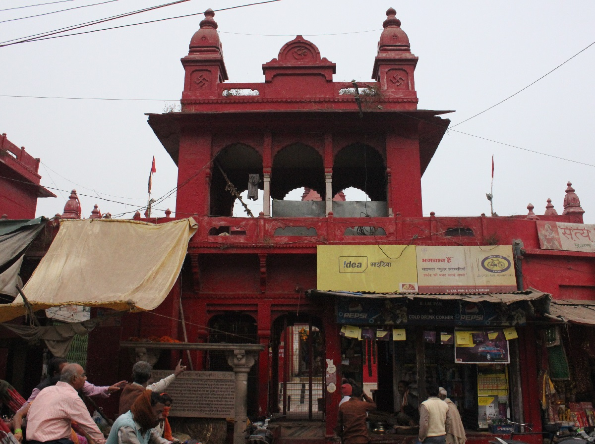 Main enterance of Durga Temple (Durga Mandir) in Varanasi